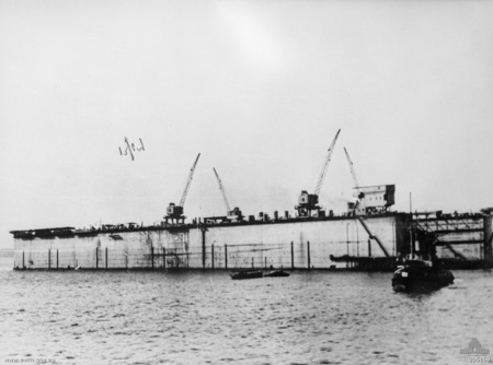 Australian War Memorial image 006159. The Admiralty IX Floating Dry Dock at Singapore Naval Base